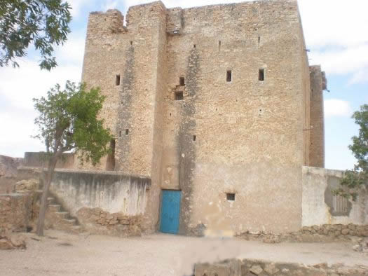 Mohammed Abdullah Hassan's historic Daarta Sayyidka Dervish fort in Eyl, Somalia.